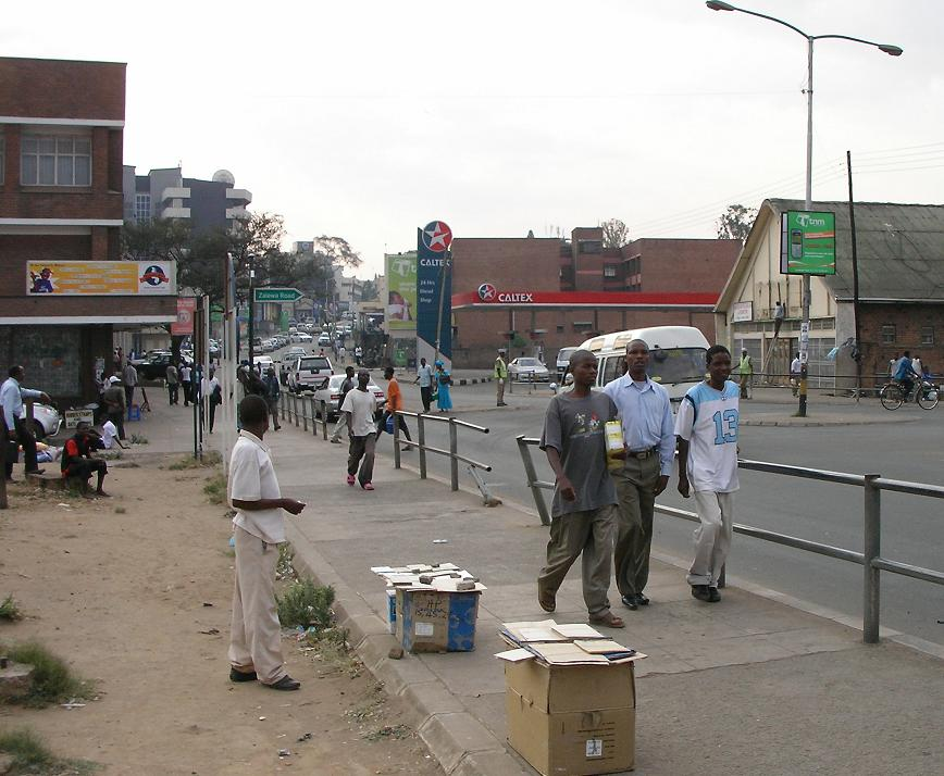 Looking west on Glyn Jones Road towards downtown in Blantyre, Malawi's second largest city.